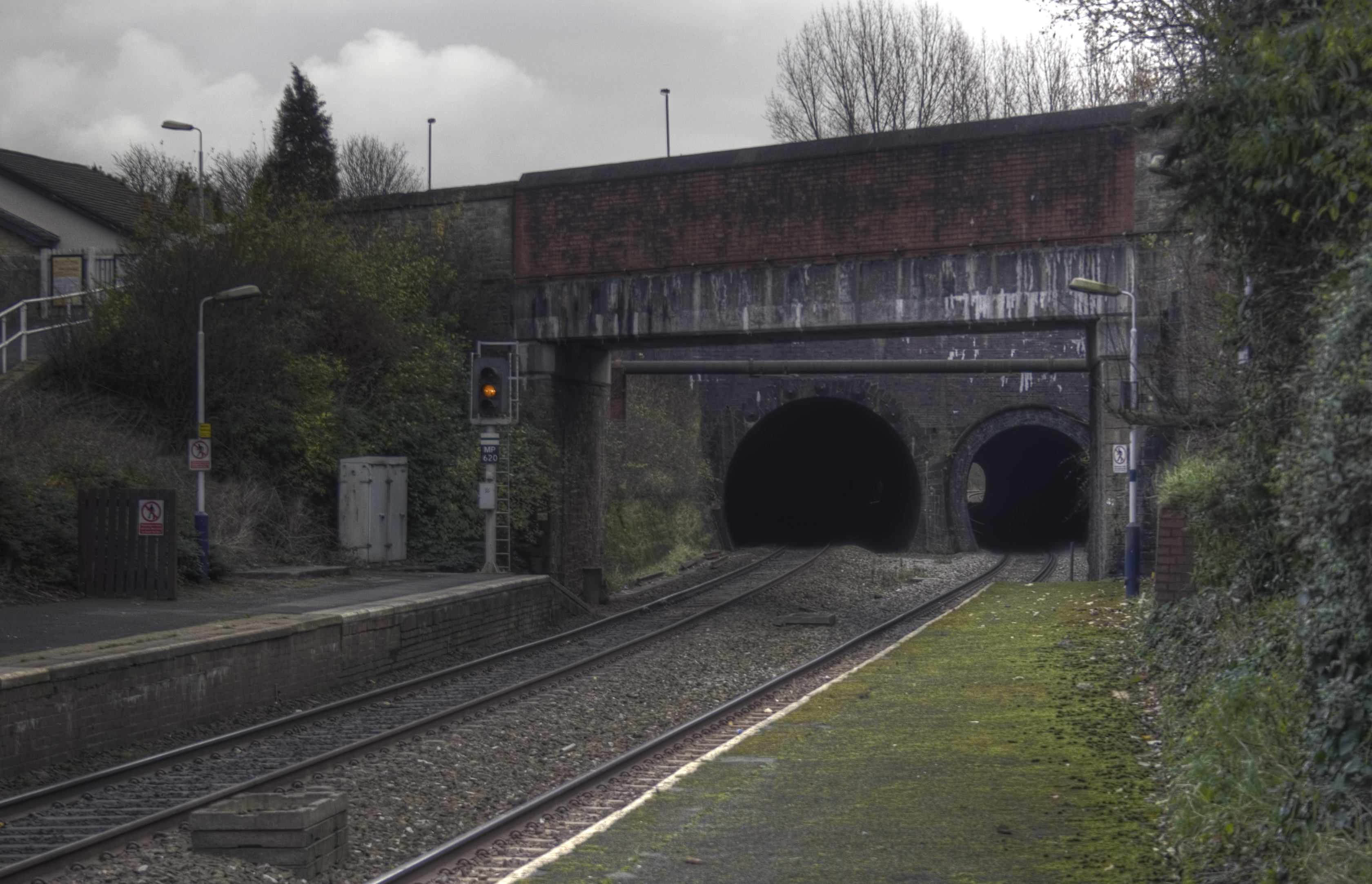 A HDR image of the tunnels at Farnworth Station, from the platform.